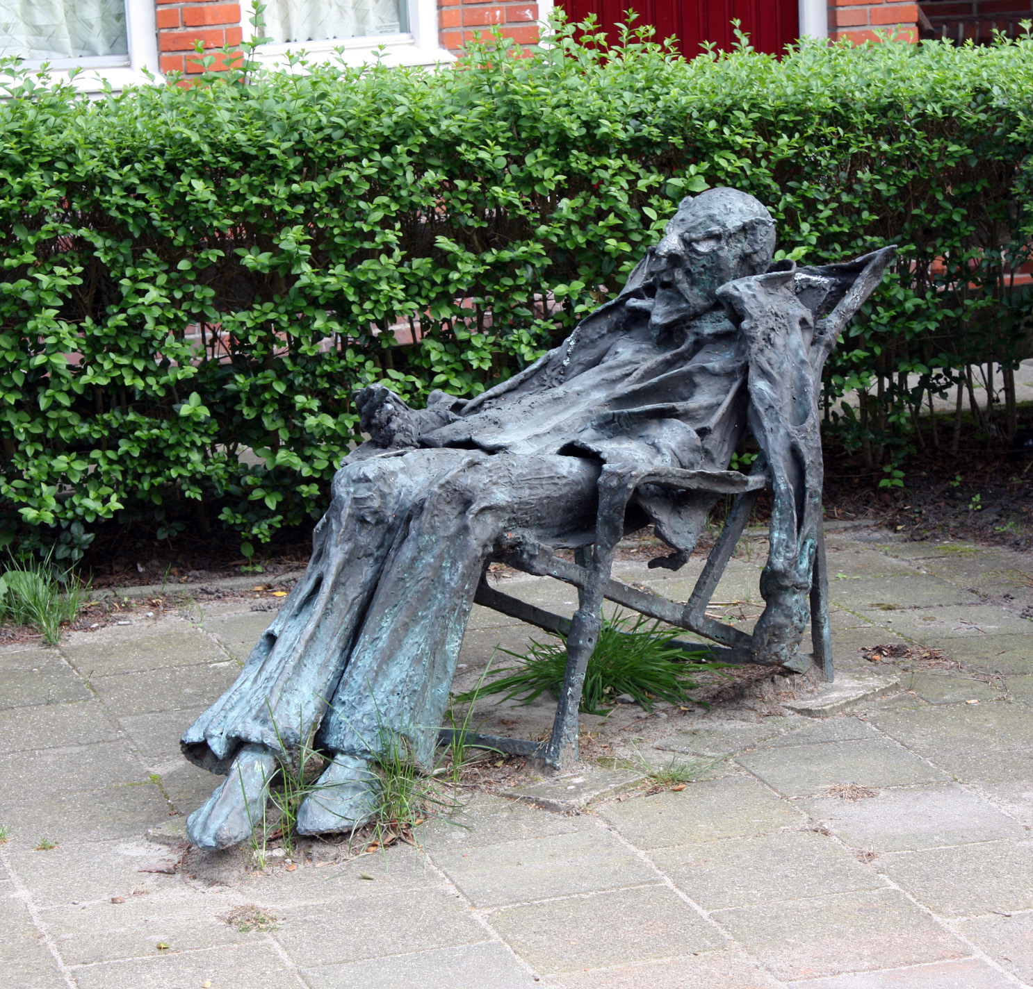 "Man in chair" by Hans Mes in Groningen, the Netherlands